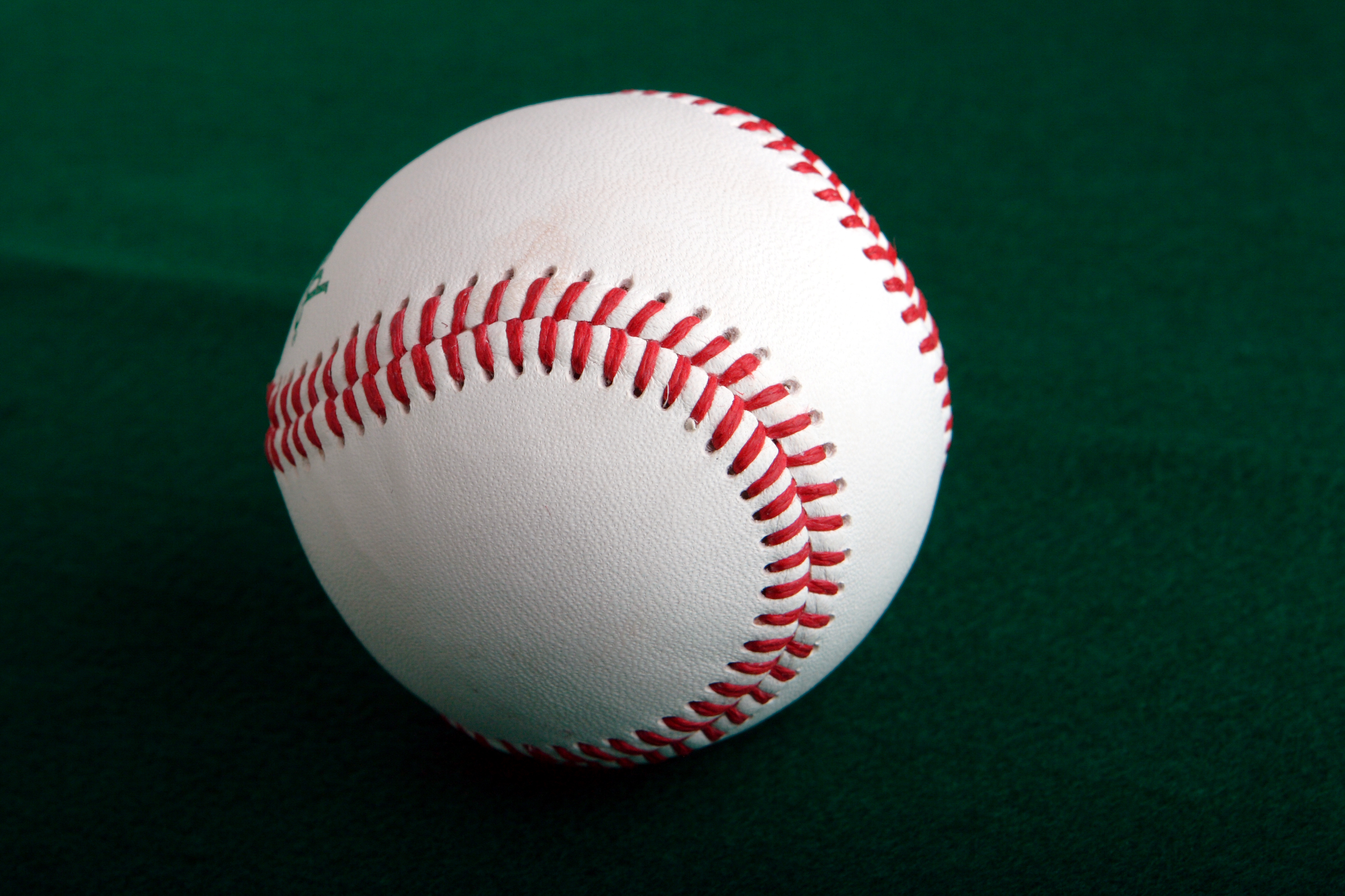 A baseball.